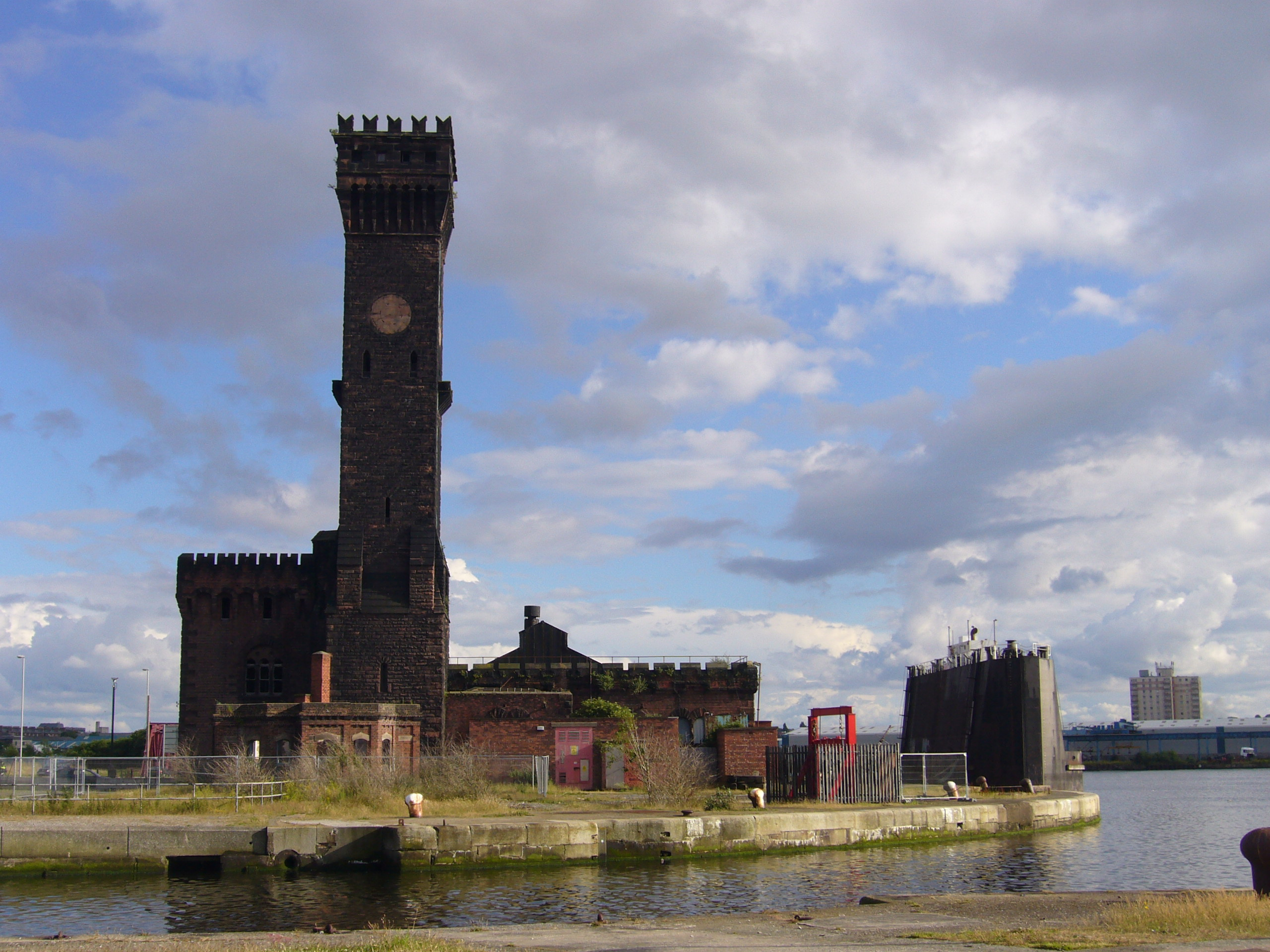 The Palazzo Vecchio in Florence on which this tower was modelled The Central Hydraulic Tower in the docks area of Birkenhead, Wirral. On the right is Caisson No. 2 of the Mersey Docks and Harbour Company